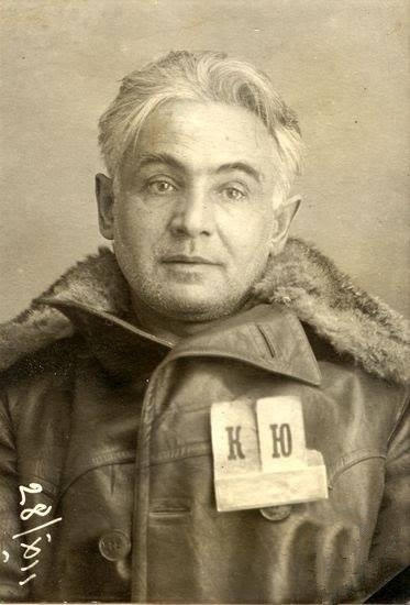 Les Kurbas Ukr. Лесь Курбас (1887–1937) - Ukrainian movie and theater director. 26.12.1933 arrested by Soviet OGPU, executed 1937